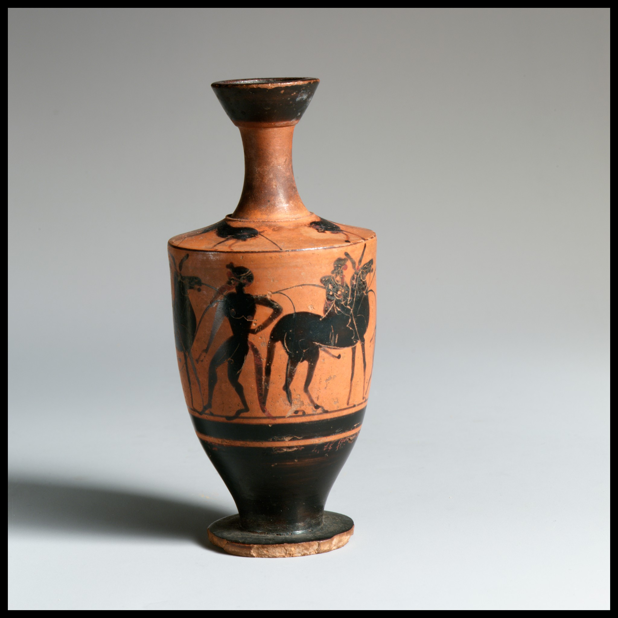 Greek, Attic; Lekythos; Vases